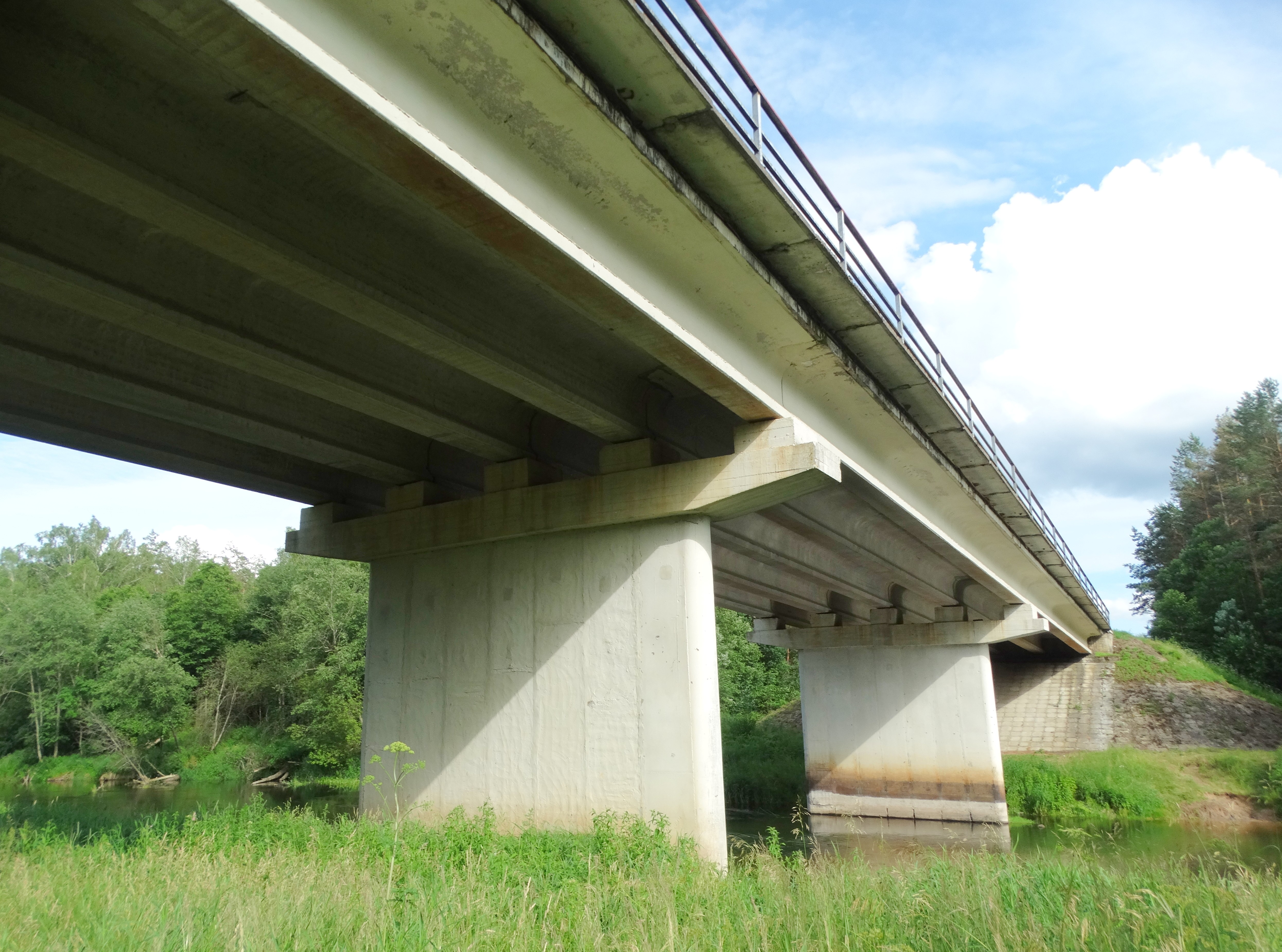 Bridge on Šventoji River, Sedeikiai, Anykščiai district, Lithuania